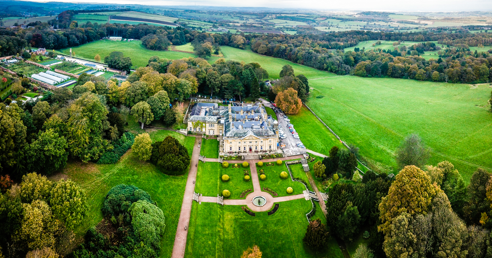 Wortley Hall is a stately home in the small South Yorkshire village of Wortley, located south of Barnsley.